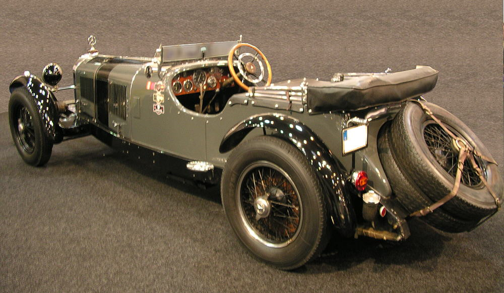 Techno-Classica 2007, Mercedes-Benz Roadster)